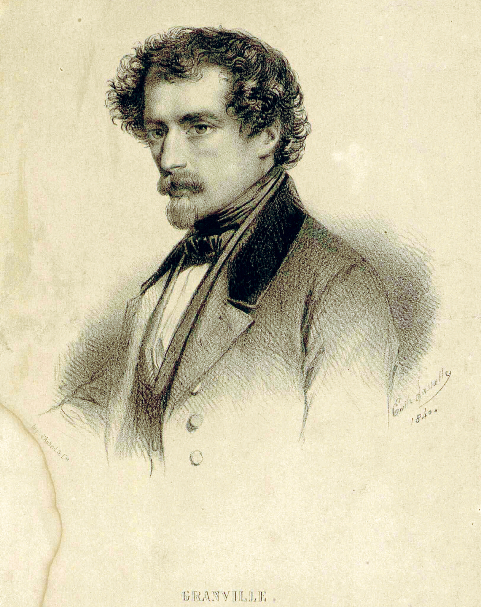 Engraving of Grandville (1803-1847), French draughstman